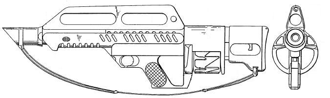 Pancor Jackhammer exploded parts diagram from the original patent